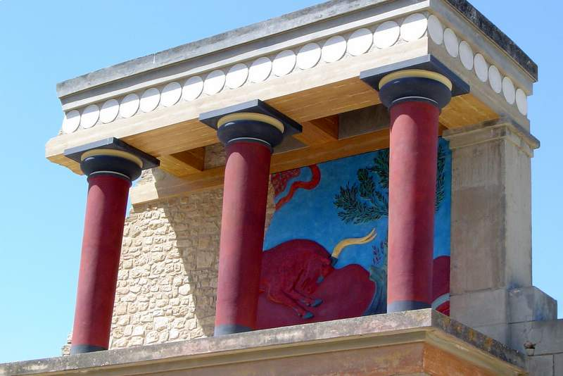 Palace of Knossos.